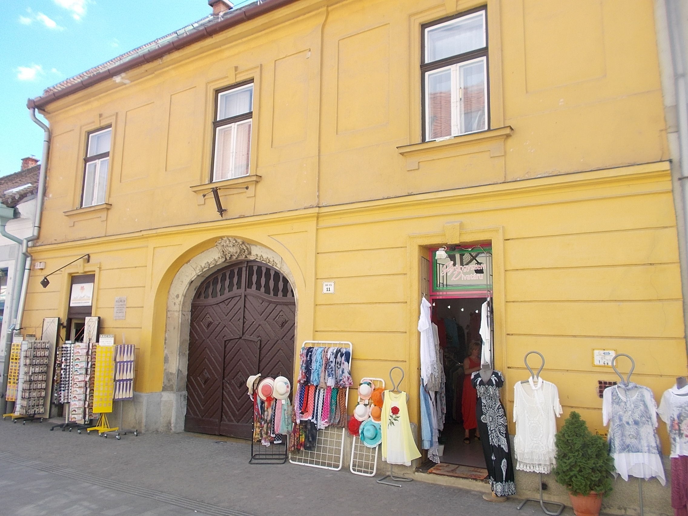 Listed Duzi house with Rococo ornate gate. - 11 Dobó István Street, Downtown, Eger, Heves County, Hungary.